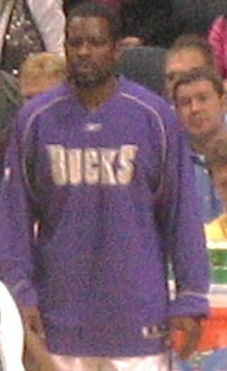 Jamaal Magliore defends Tim Duncan during Milwaukee Bucks v San Antonio Spurs game.